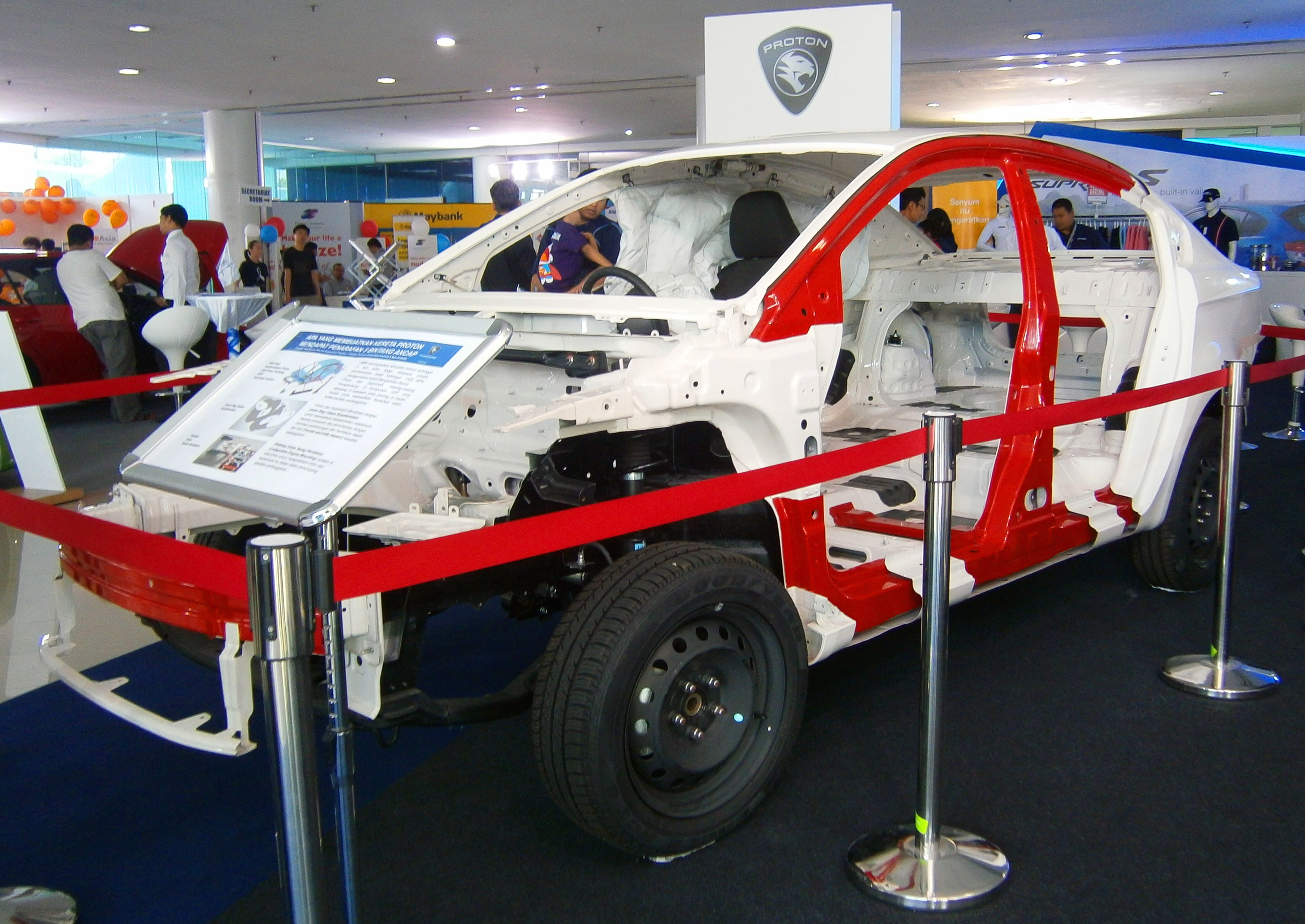 Proton Prevé RESS (Reinforced Safety Structure). Designed & Assembled in Malaysia